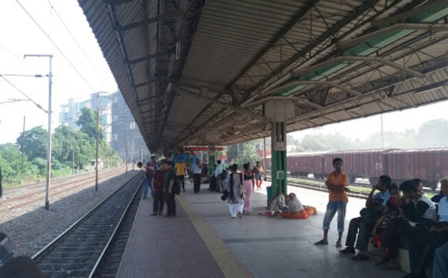 New Alipore Railway Station